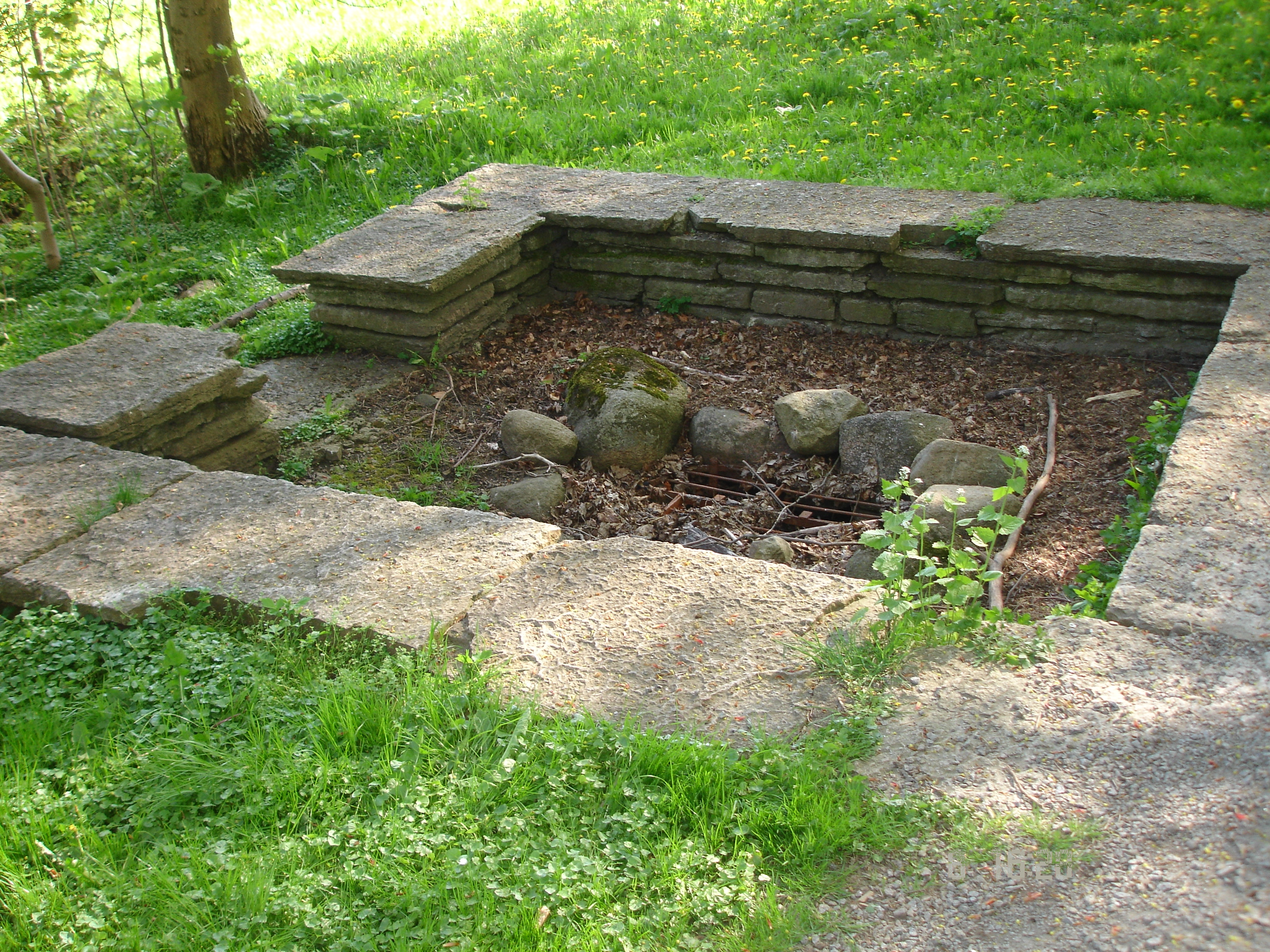 Sissela's well in Borrby, Simrishamn municipality, Skåne (Scania), Sweden.